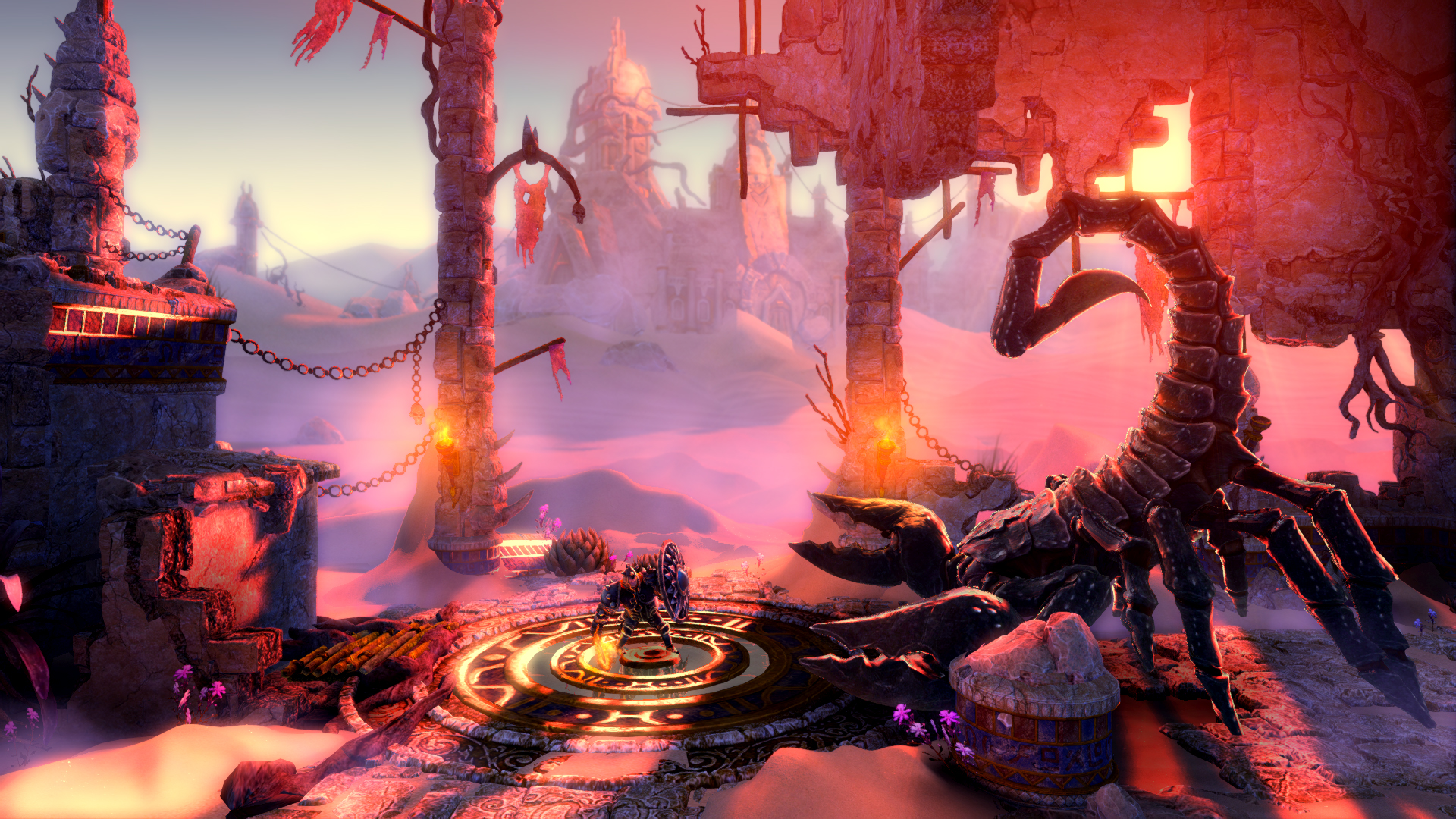 Trine 2 screenshot. Released in 2011, the game was developed by Frozenbyte. Pontius battles a scorpion in this scene from the Deadly Dustland chapter, part of the Goblin Menace DLC pack released in 2012.